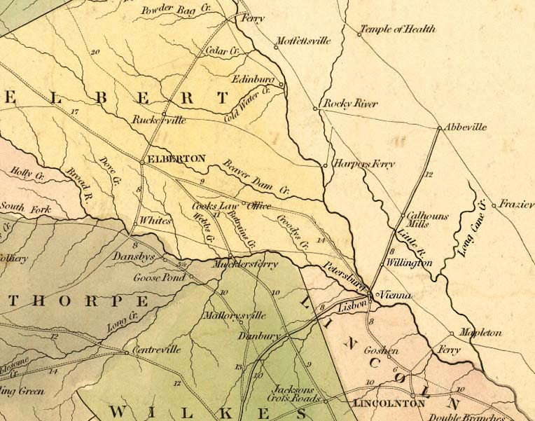 Broad River Valley of Georgia, 1839. Cropped from David H. Burr's Map of Georgia and Alabama.